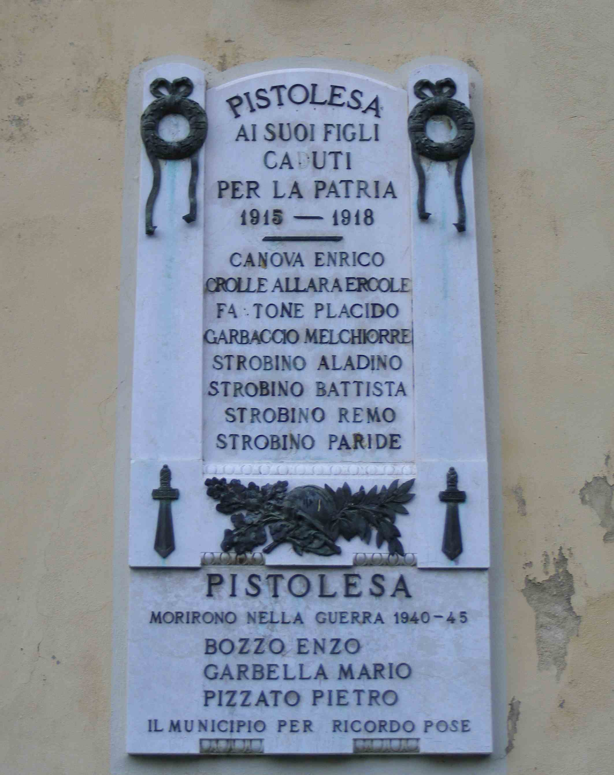 Memorial tablet on the former town-hall of Pistolesa (BI, Italy)